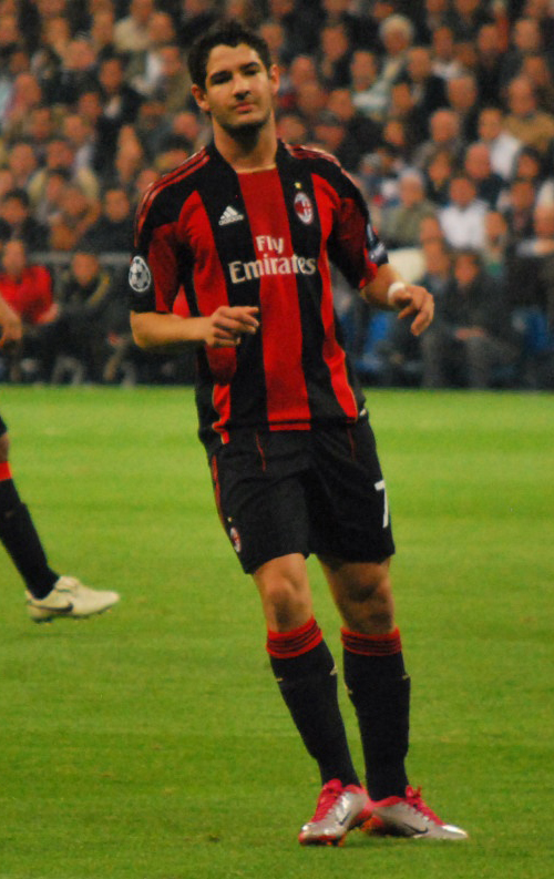 Pato and Ricardo Carvalho during Real Madrid CF-AC Milan, 2010–11 UEFA Champions League